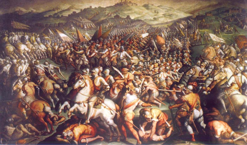 A painting of Giorgio Vasari that represents The Battle of Marciano